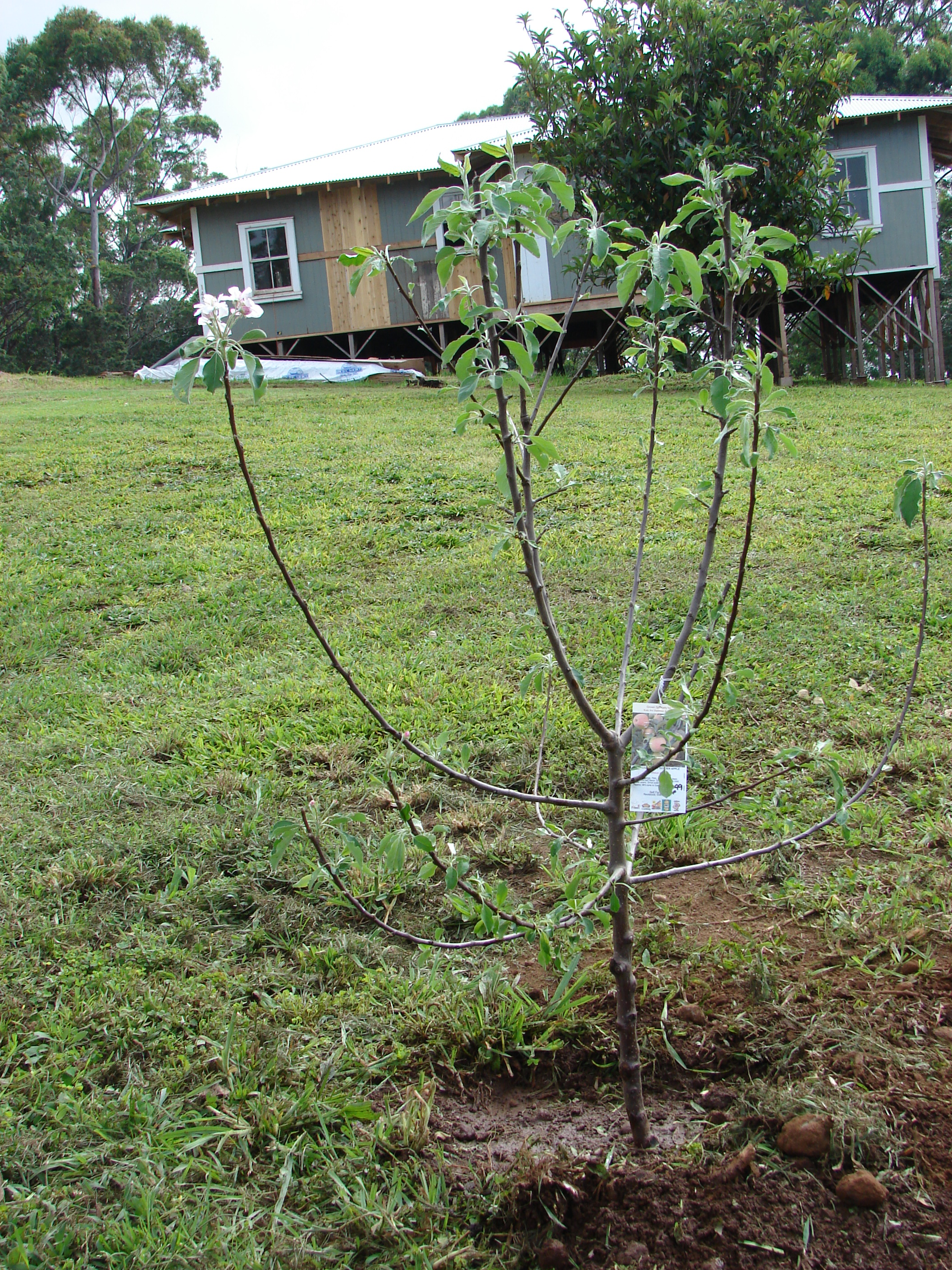 Malus sp. (EZ pick Dorsett golden apple planting). Location: Maui, Olinda